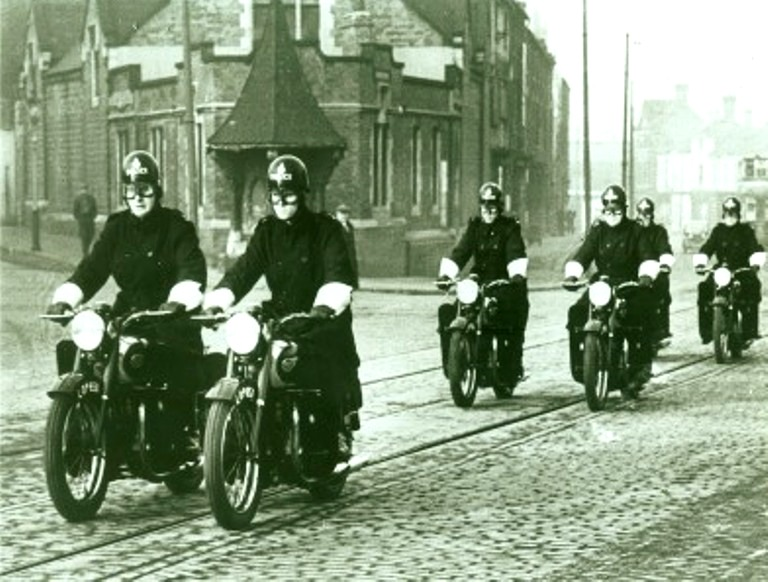 A number of police motorcyclists in the English Midlands, in mid 1900s.